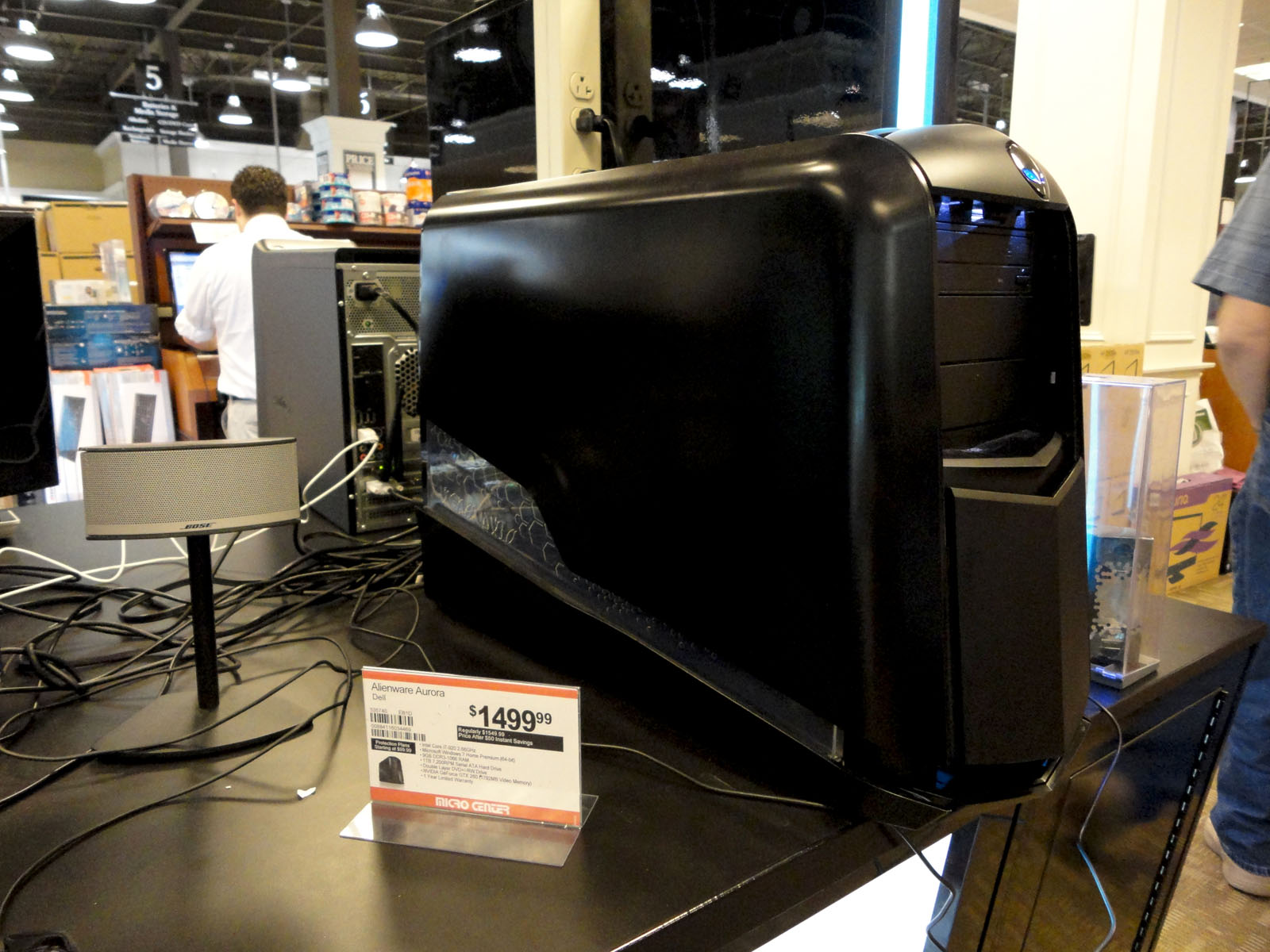 Alienware Aurora computer.